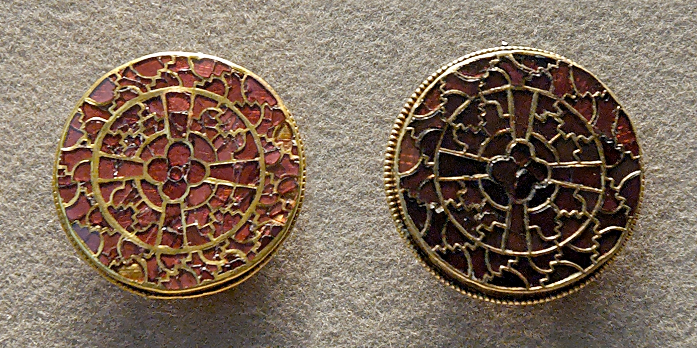 Pair of fibulae from the finery set of Queen Aregund (ca. 515–573), wife of Clotaire I (511–561), king of the Franks. Gold and garnets, Merovingian Gaul, ca. 570. Found in a tomb of Saint-Denis in 1959.